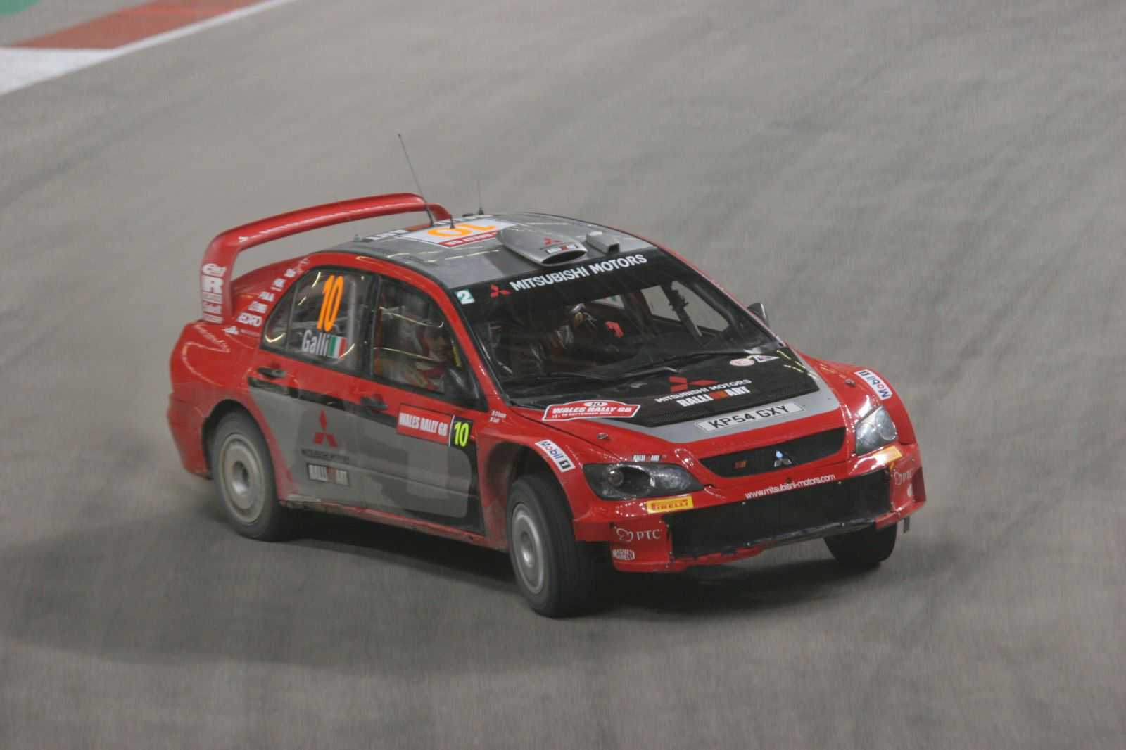 Gigi Galli driving a Mitsubishi Lancer Evo WRC at the Rally GB